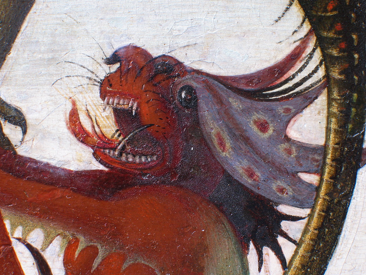 Michelangelo, The Torment of Saint Anthony (detail), c. 1487-88. Oil and tempera on panel, 18 1/2 x 13 1/4 in. Kimbell Art Museum, Fort Worth. Description courtesy Kimbell Art Museum. This image shows the artist's use of short, parallel incisions in teeth.